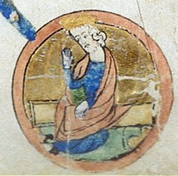 Edward II of England